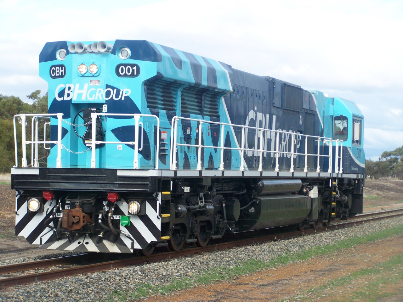 CBH class locomotive no. CBH001 Yilliminning, at Wagin, Western Australia. Photograph by Daryle Phillips Circa 2012